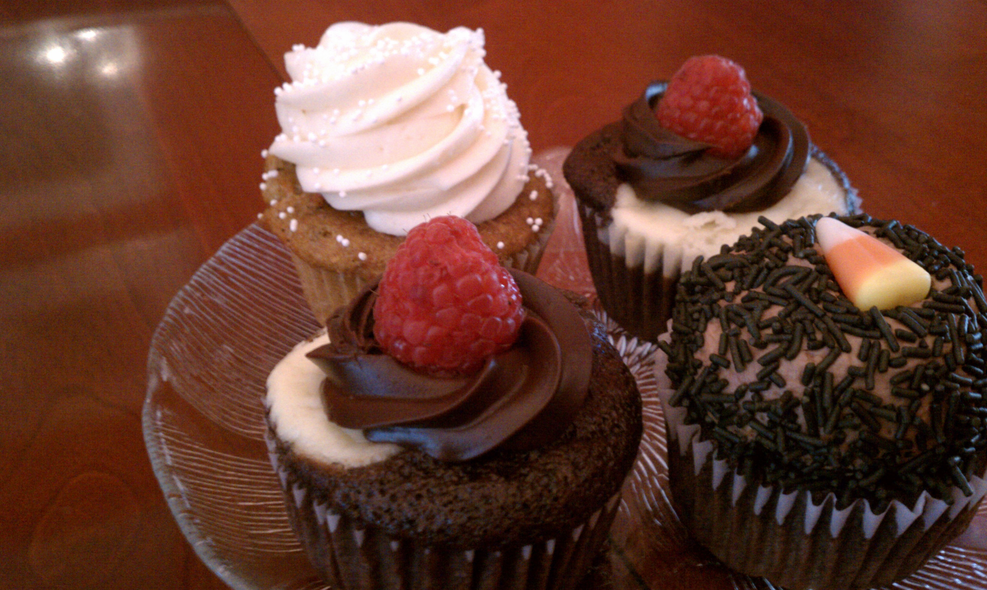 cupcakes from cake in a cup